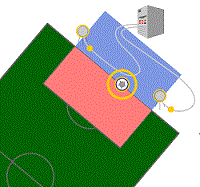 Graphic of Cairos Goal Line Technology system.